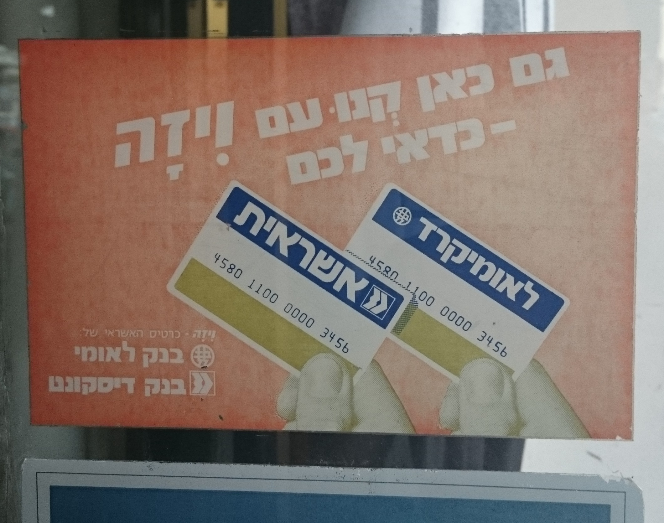 Old 1980s Israeli Visa acceptance sticker on store display windows in Tel Aviv, Israel.